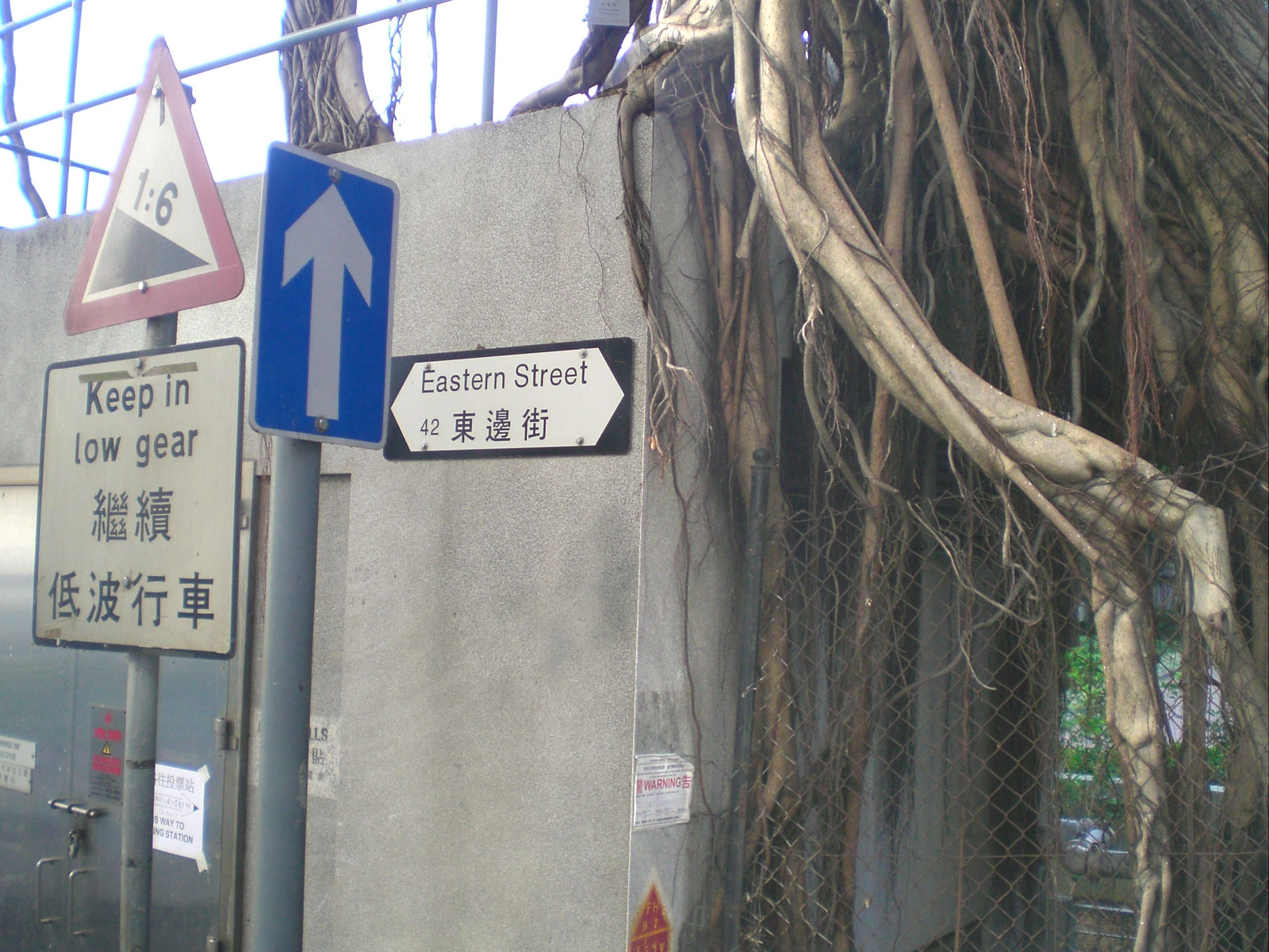 東邊街, Eastern Street, Hong Kong.